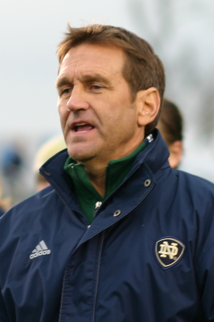 The UNC Tar Heels women defeated Notre Dame 2-1 to win their 18th national women's soccer title at SAS Soccer Park in Cary, NC on Sunday, December 3, 2006. UNC's goals were scored by Casey Nogueira and Heather O'Reilly.